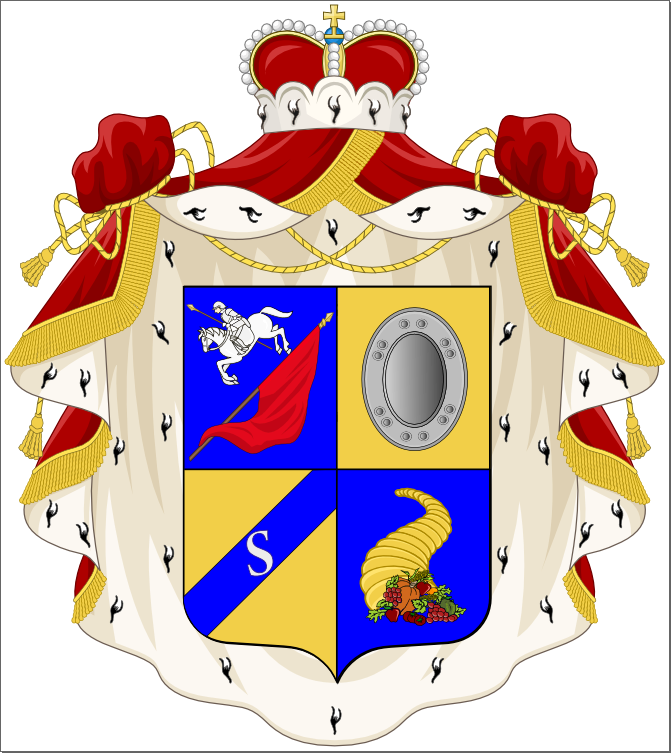 COA Tsitsianov